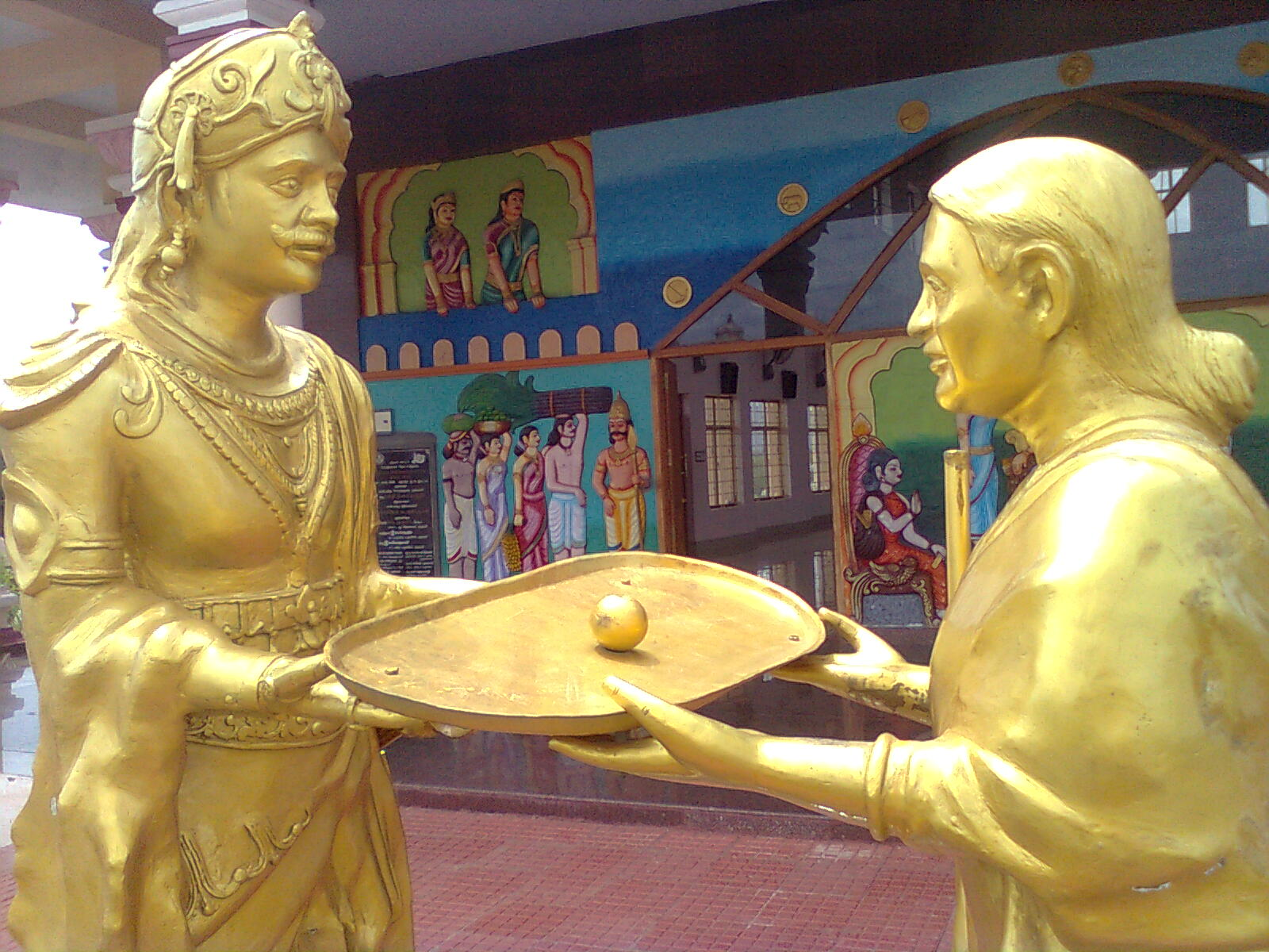 statue of tamil king athiyaman giving rare gooseberry fruit to tamil poet avvaiyar